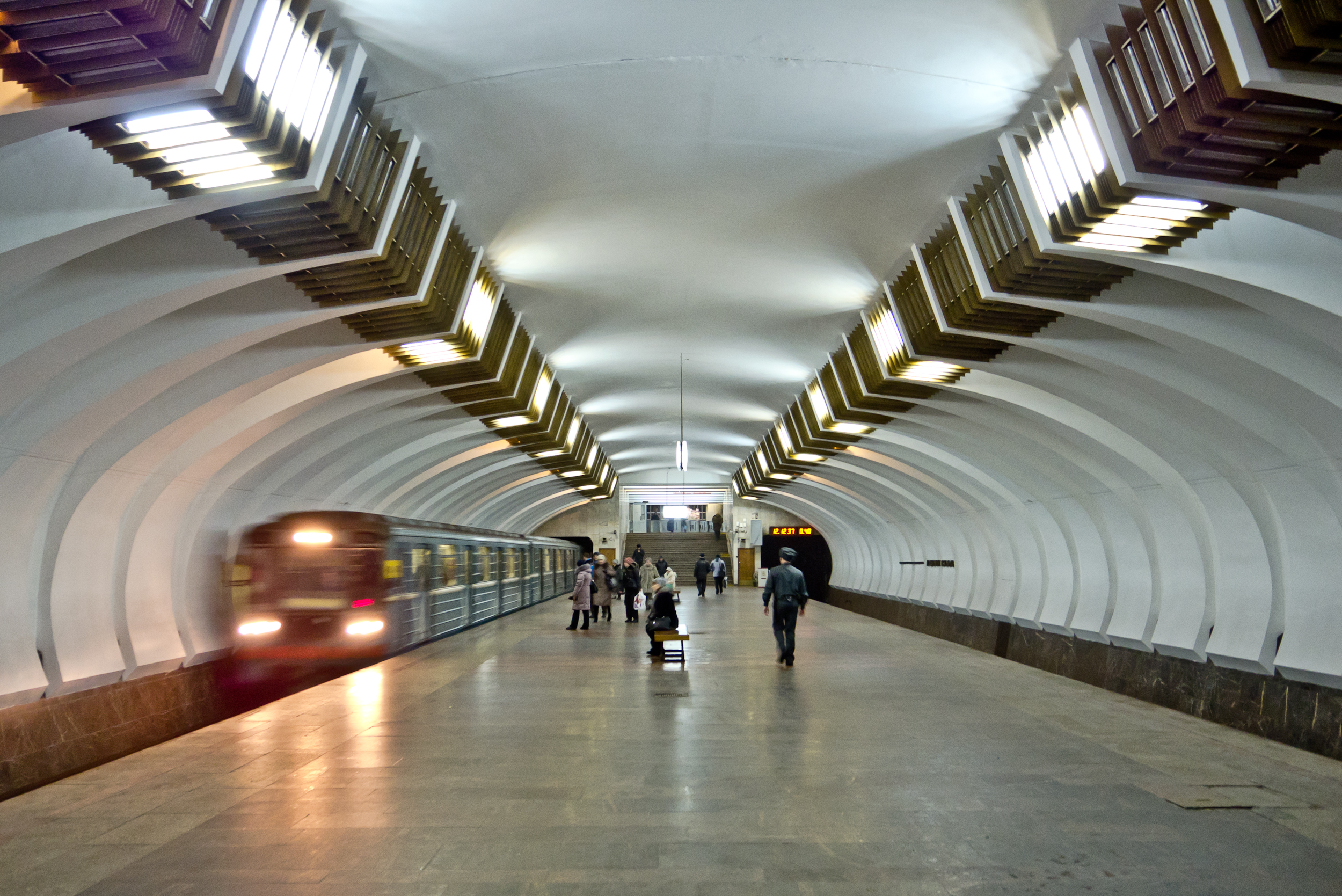 Leninskaya station of Nizhny Novgorod Subway